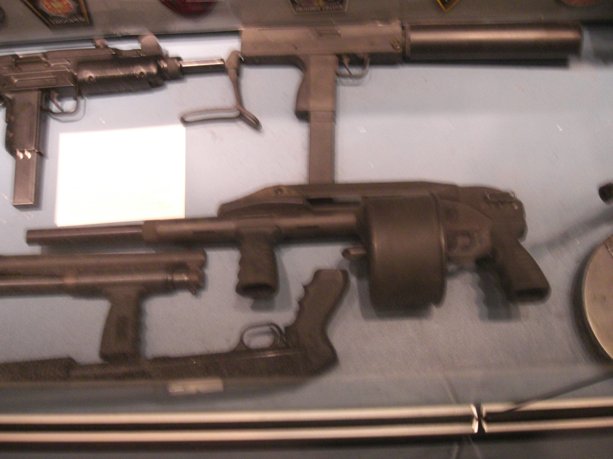 An Armsel Striker. Taken at the National Firearms Museum